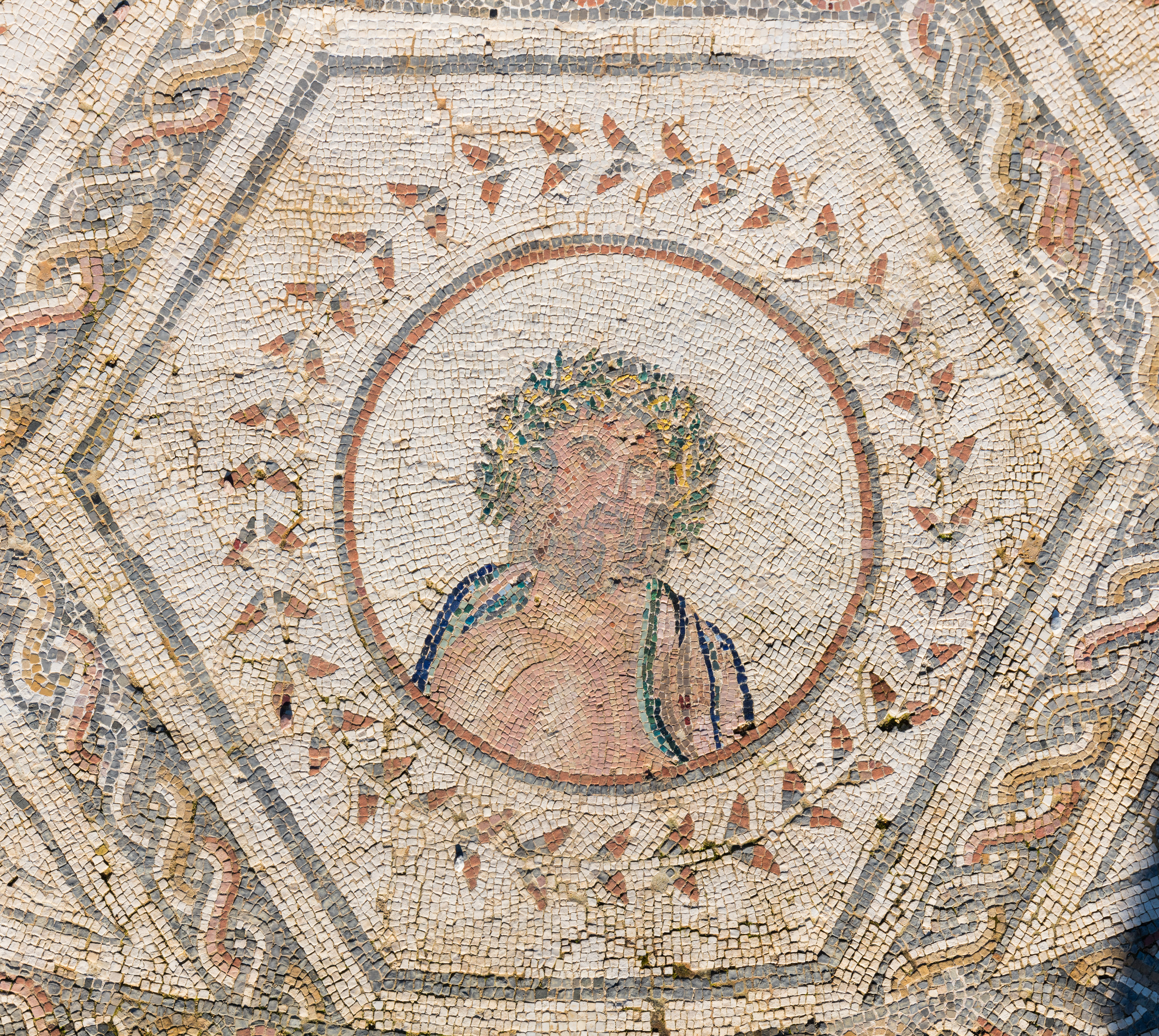 Mosaic of the Plantearium, ancient roman city of Itálica, Santiponce, Seville, Spain